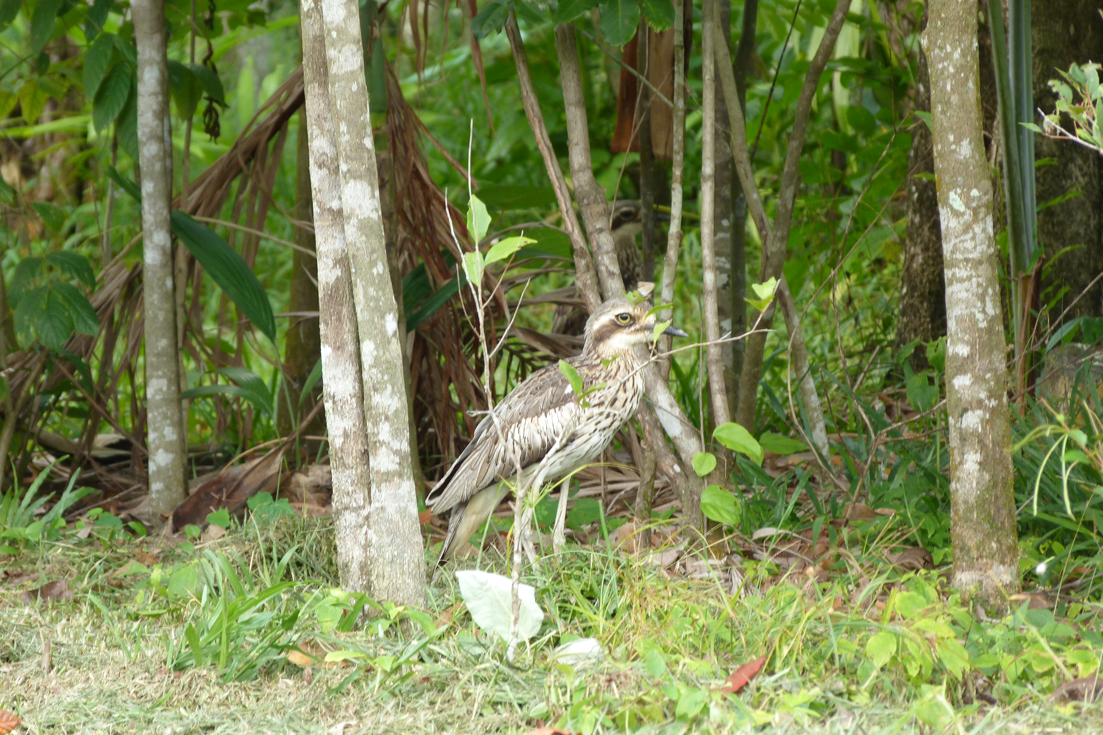 Burhinus grallarius (Latham, 1801), Bush Stone-curlew, Garners Beach, QLD, 21 December 2011